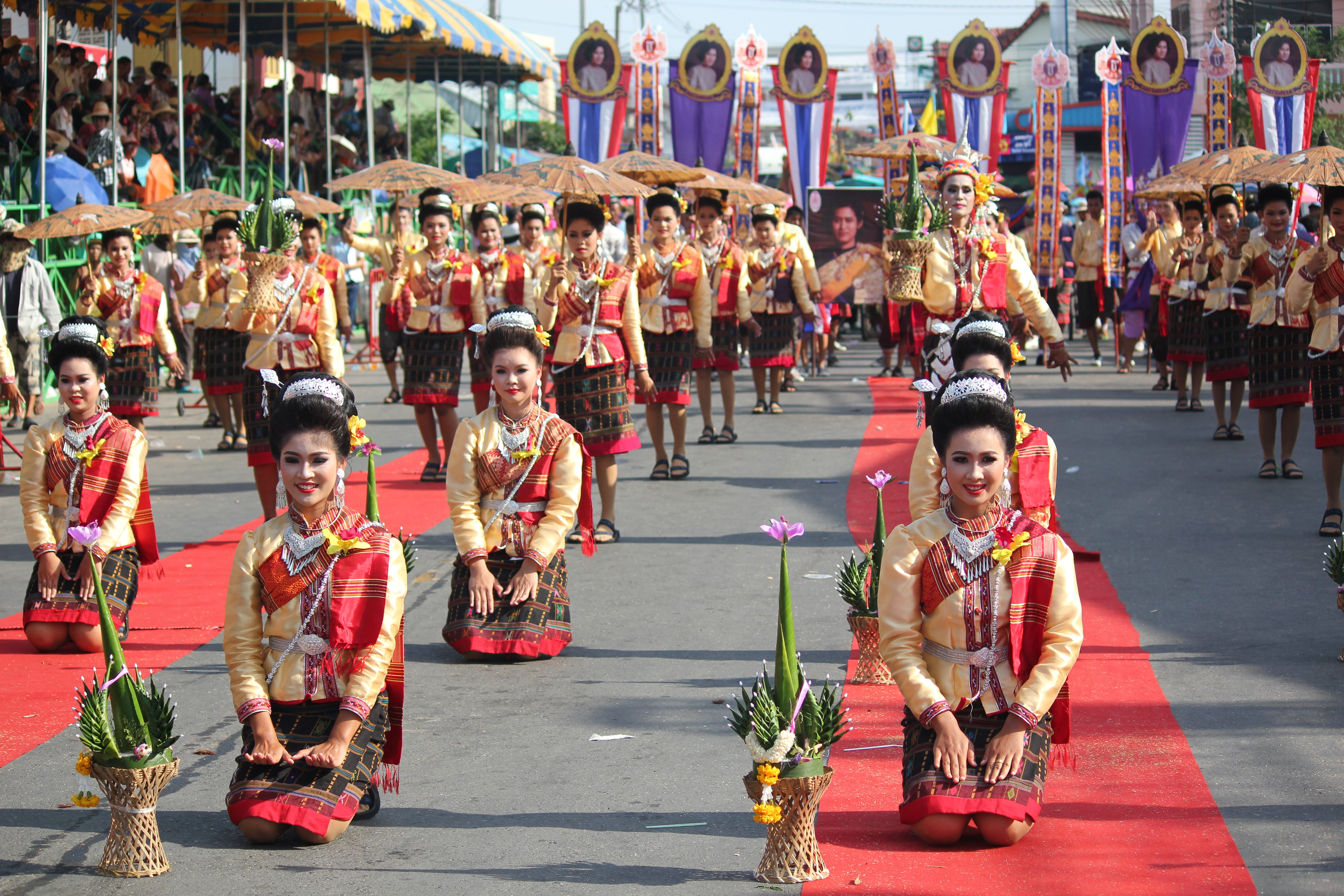 Sueng Bung Fai with traditional Isan dressing and local long drum show